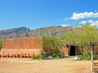 The Gallery In the Sun, in Tucson, Arizona, was opened in 1961.